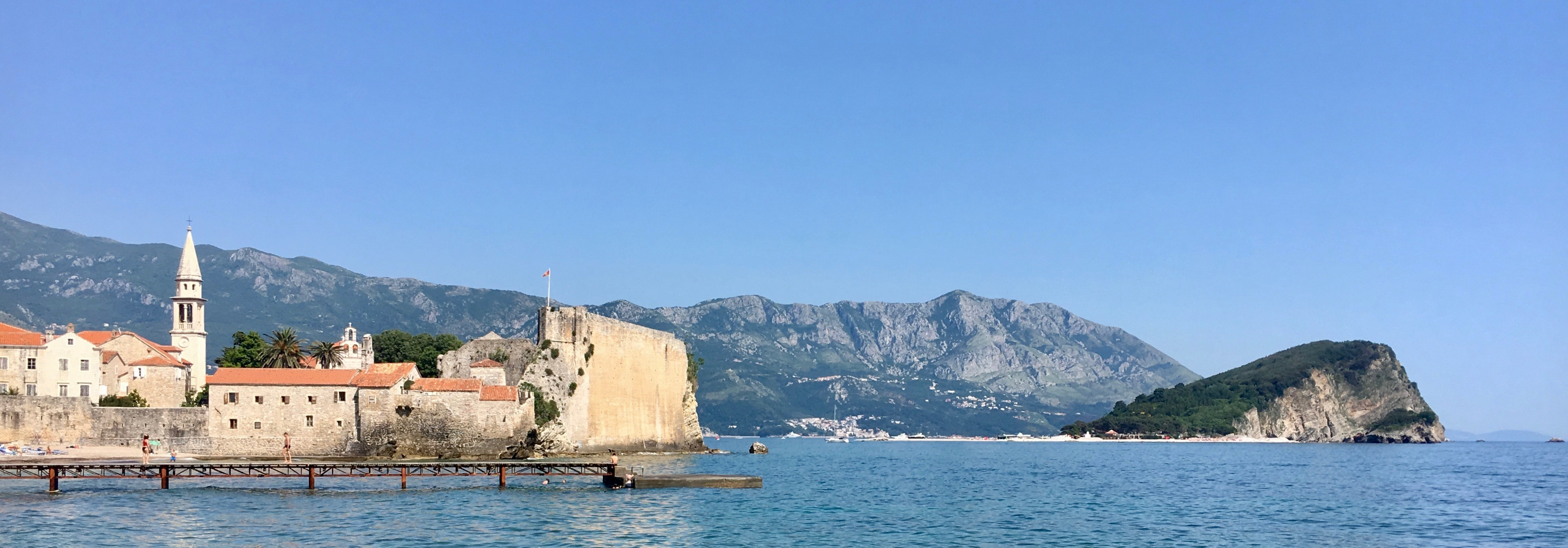 Part of Budva Stari grad and Sveti Nikola island. View from Mogren Beach